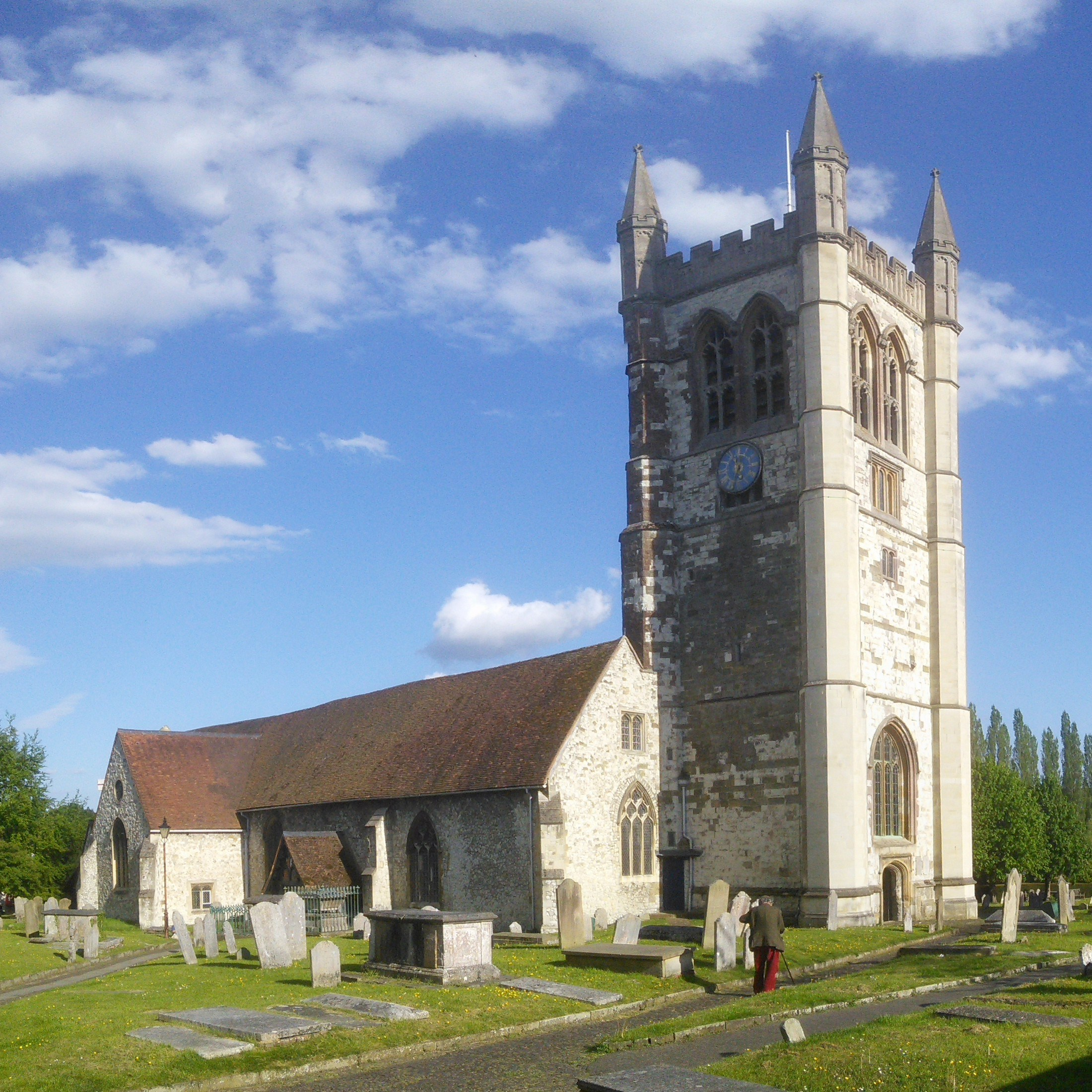 St Andrew's Church, West Street, Farnham, Borough of Waverley, Surrey, England.